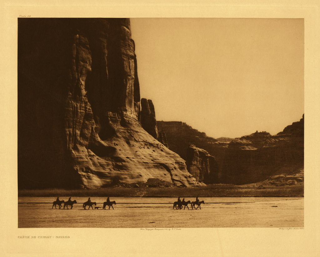 Cañon de Chelly - Navaho (The North American Indian; v.01) SUMMARY Description by Edward S. Curtis: A wonderfully scenic spot is this in northeastern Arizona, in the heart of the Navaho country - one of their strongholds, in fact. Cañon de Chelly exhibits evidences of having been occupied by a considerable number of people in former times, as in every niche at every side are seen the cliff-perched ruins of former villages.